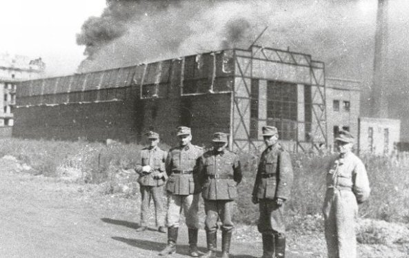 Warsaw Uprising – „Ursus” factory in Warsaw’s district Wola set on fire by German troops. On 5th August 1944 ("Black Saturday") almost 6000 Polish civilians were murdered there by SS killing squads. This photo comes from so-called “Mensebach Album”. After the end of war this album was found and taken over by the Polish authorities. It is now in the archives of the Western Institiue (“Instytut Zachodni”) in Poznań.